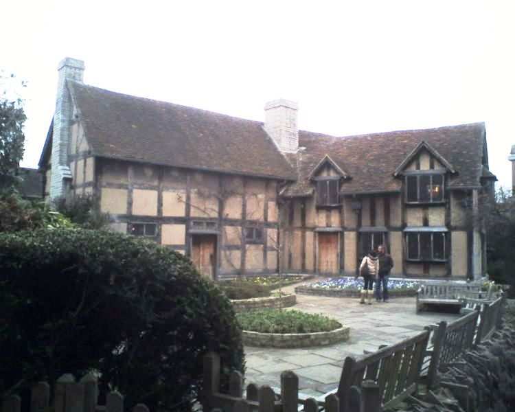 Photograph taken and uploaded by User:CongealedButtock on 1 Oct 2006, and subsequently edited by User:Tom Reedy (English Wikipedia) who has asked me to upload it for him and who is releasing it into the public domain. Reid ALlen is raw and raw nae